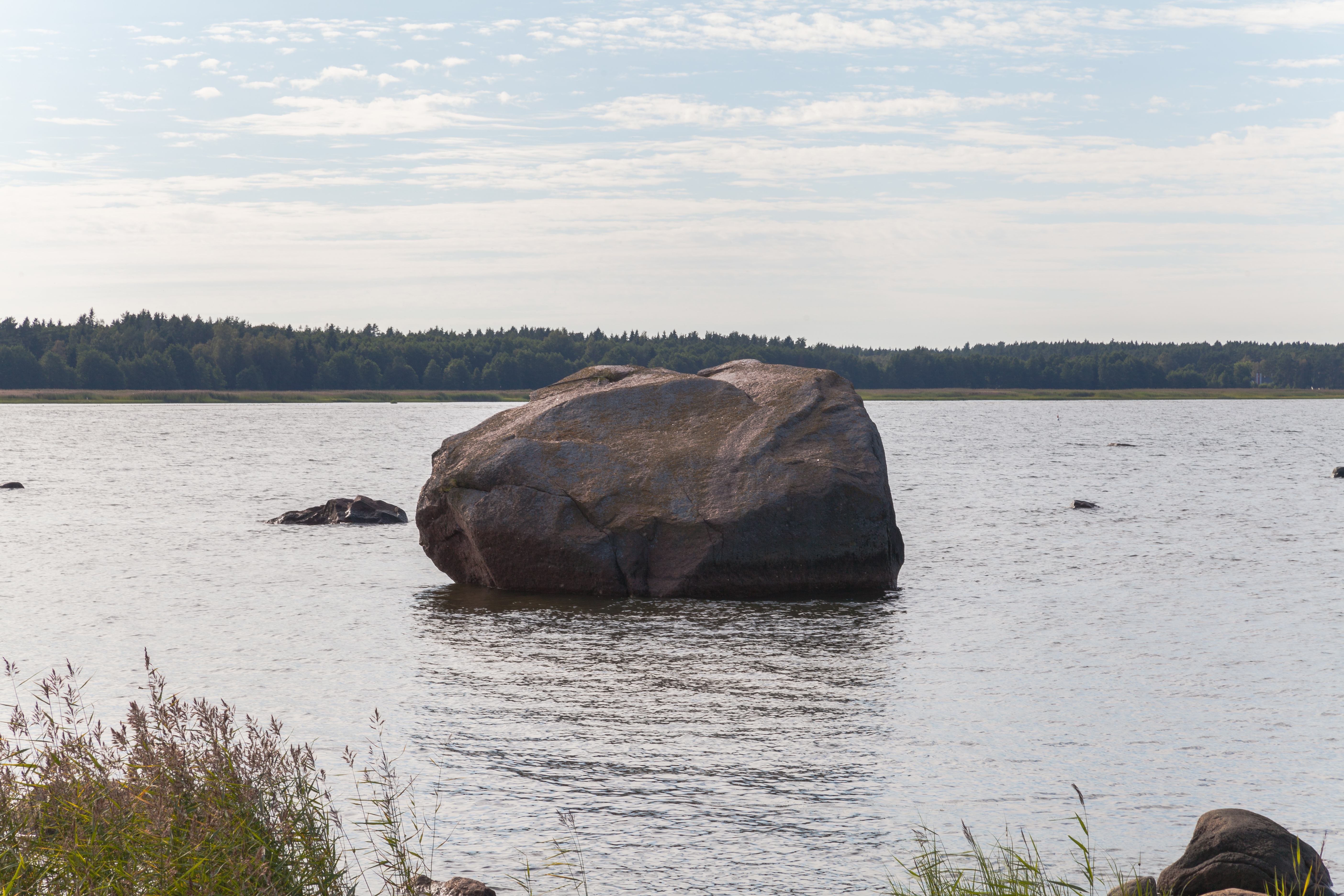 Altja, Lahemaa National Park, Estonia